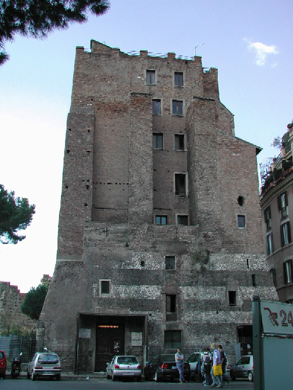 Rome Count's tower on via Cavour